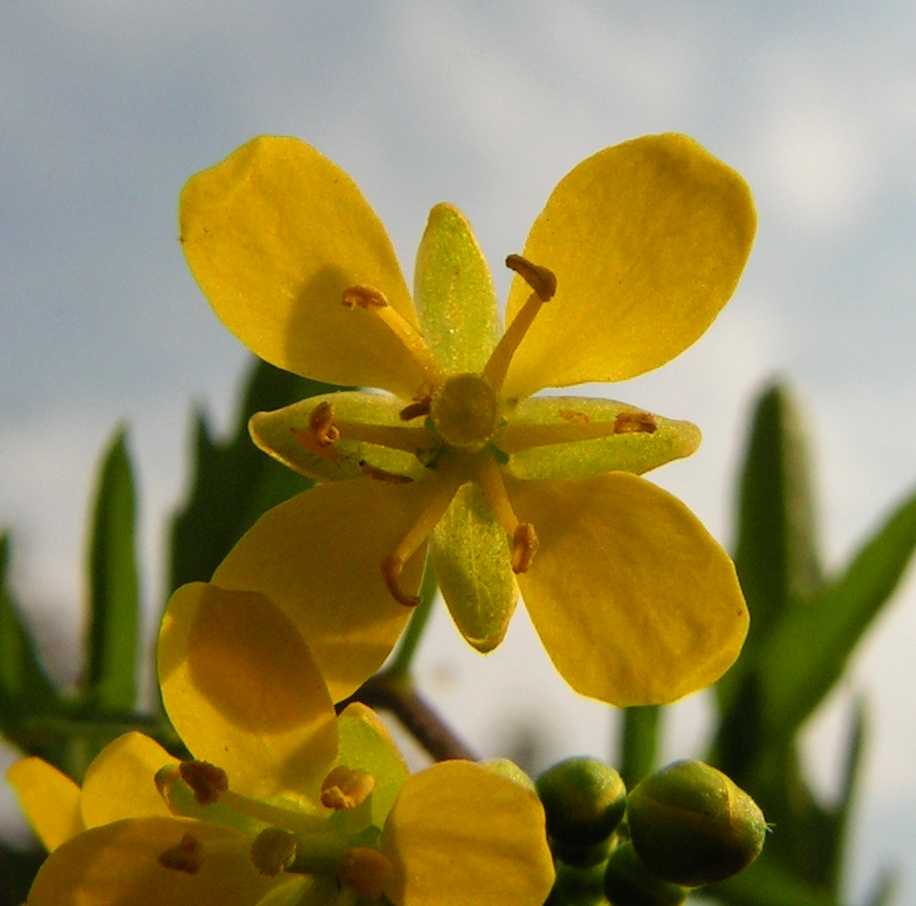 The flower of Rorippa sylvestris (?). Moscow region, Russia.